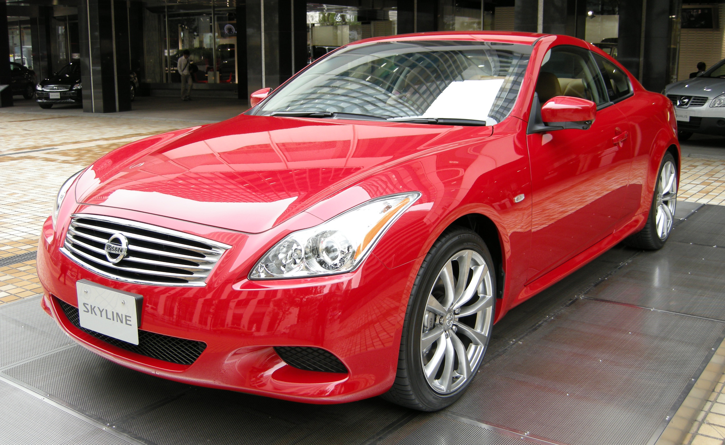 NISSAN SKYLINE COUPE CV36 Type S/SP